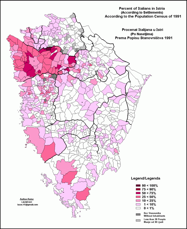 Ethnic map of Istria, showing the percent of Italians according to the 1991 population census.